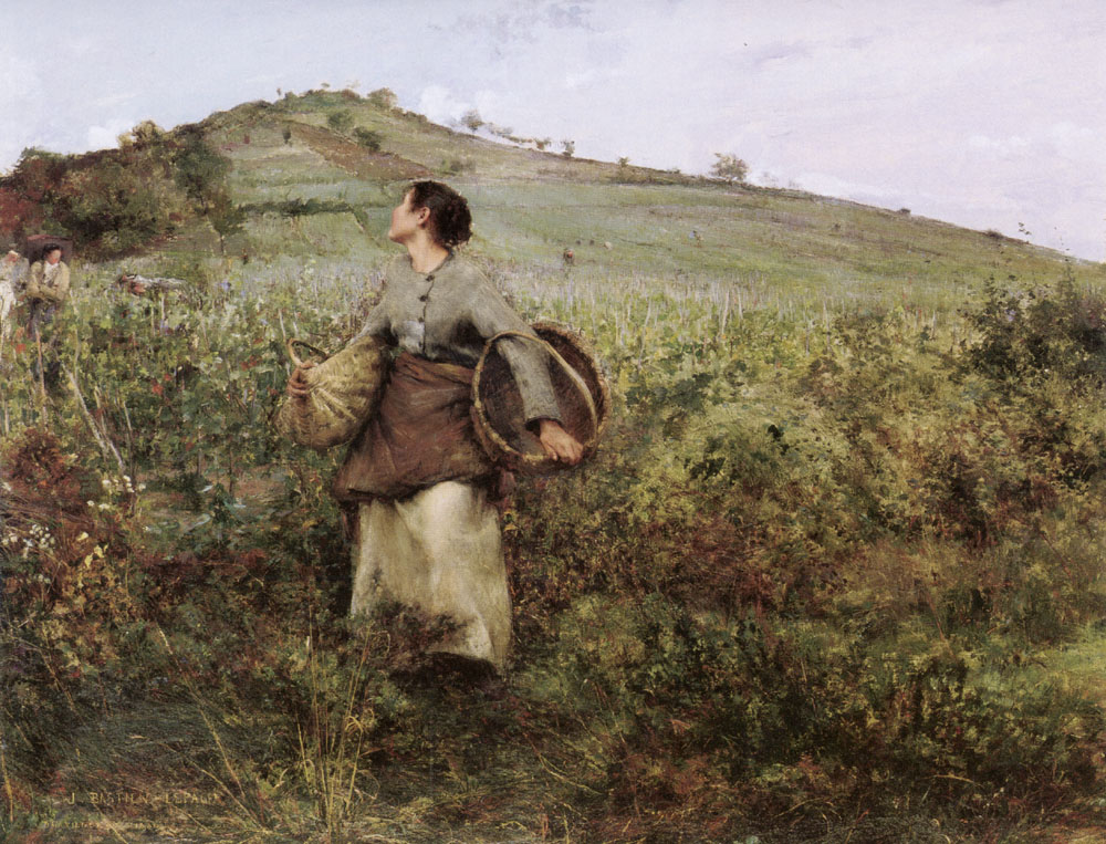 The Grape Harvest by Jules Bastien-Lepage, 1880 Van Gogh Museum